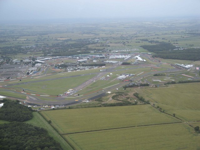 British Grand Prix 2008 Taken from an Agusta 109S, G-MUMU, Saturday evening before the race on its way back to Sywell Aerodrome.